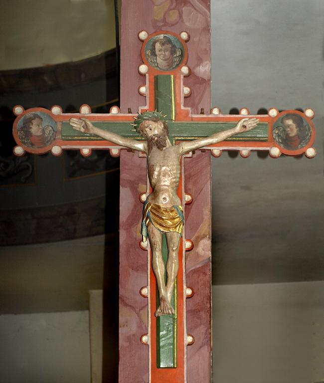 Uetersen (Schleswig-Holstein, Germany), church at the monestery